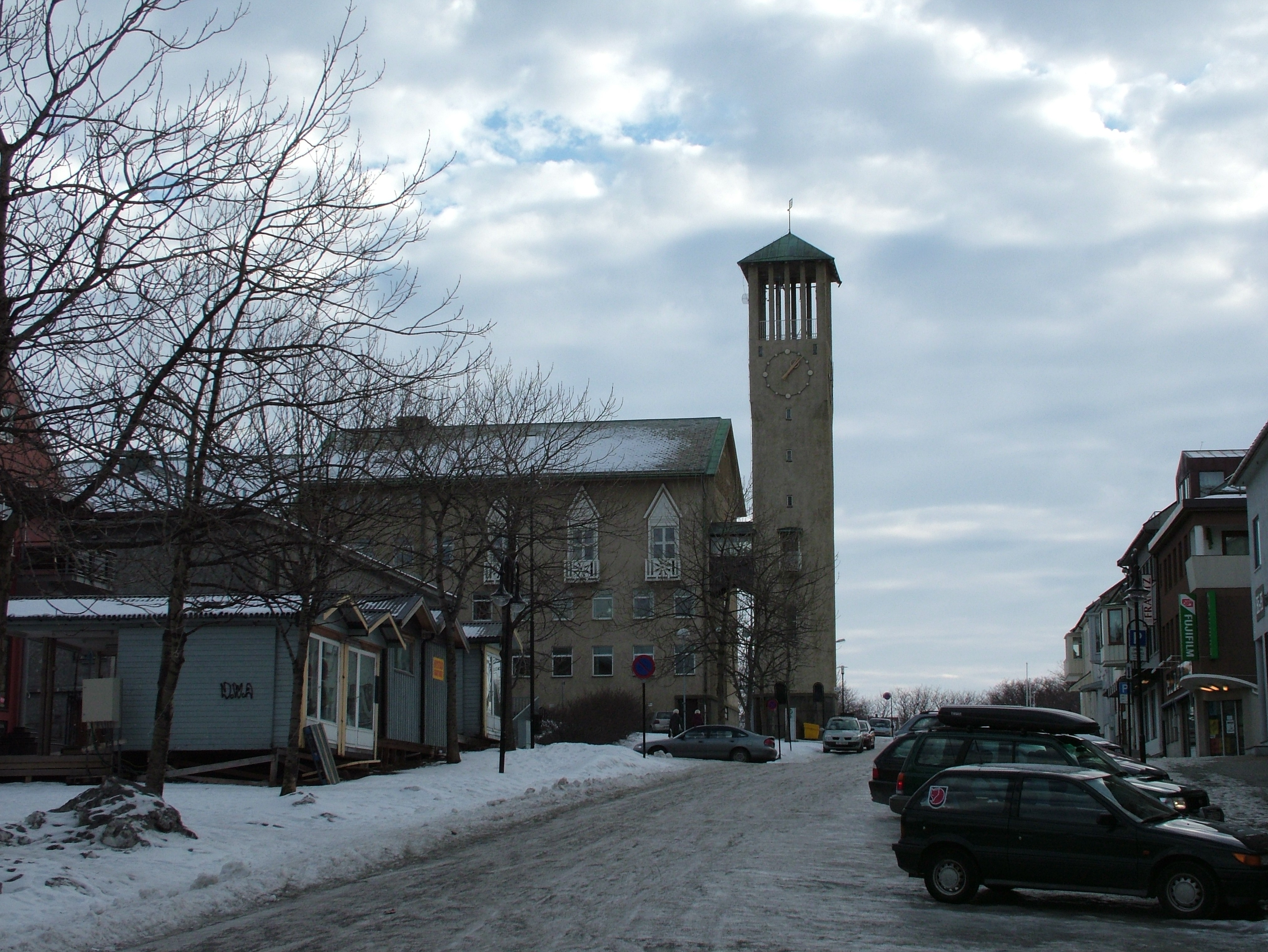 City hall of Bodø, februar 2005